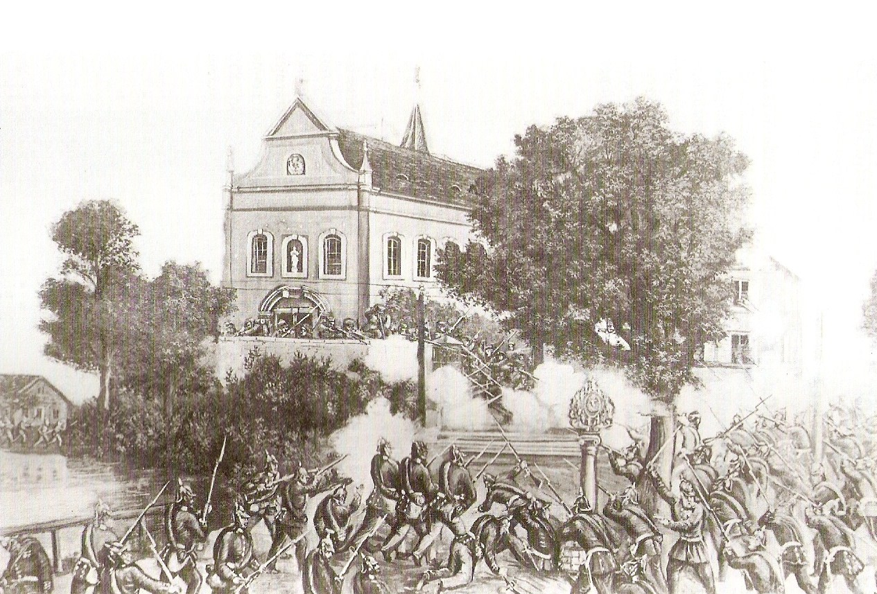 Battle in Bad Kissingen (Kapellenfriedhof), 10th July 1866